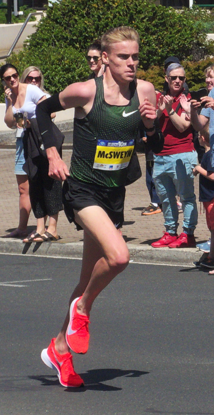 Stewart McSweyn winning the 2018 Burnie Ten, and setting a course record.